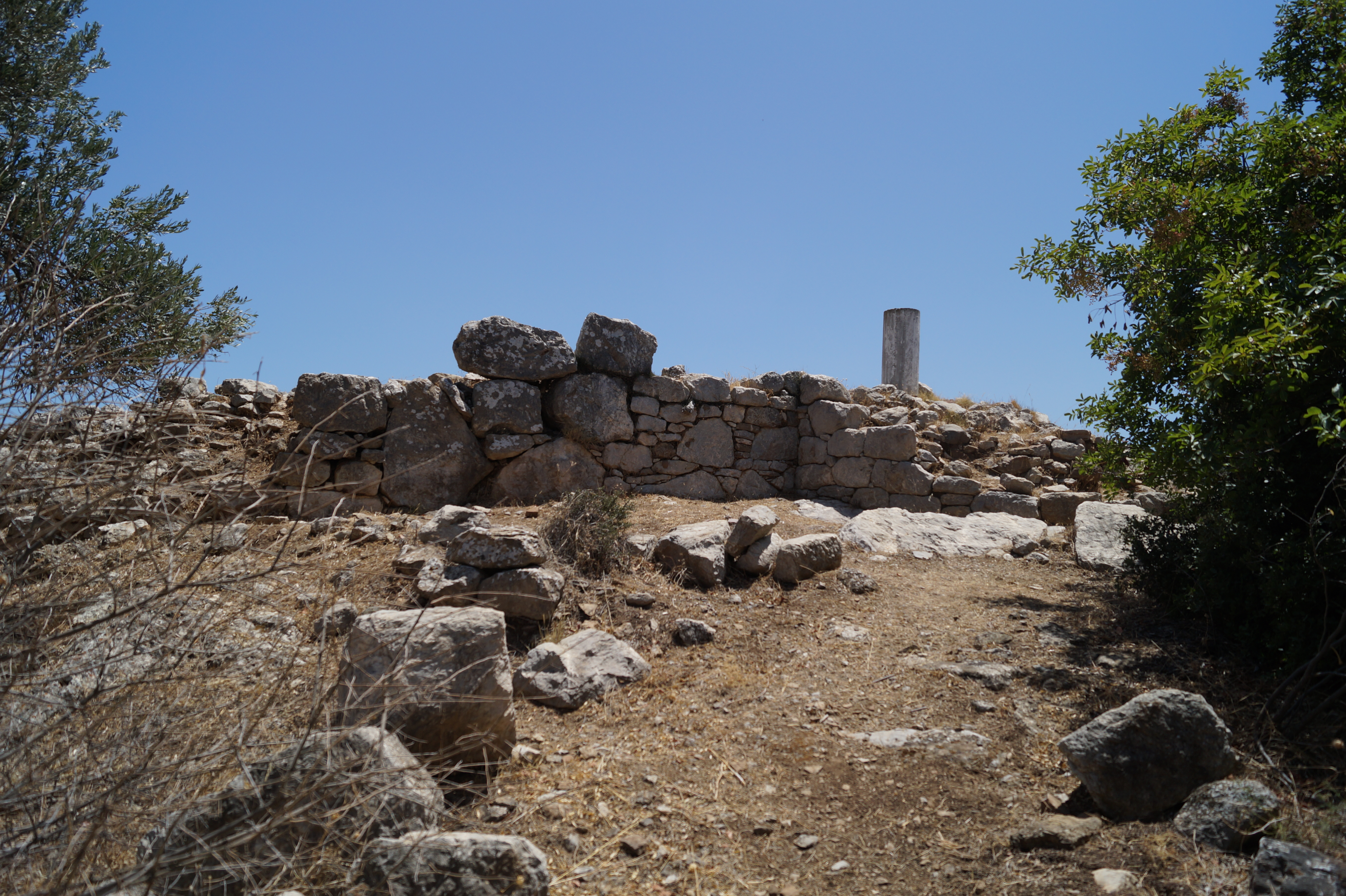 Greece, Peloponnes, Megali Magoula: Classical walls on the western acropolis.